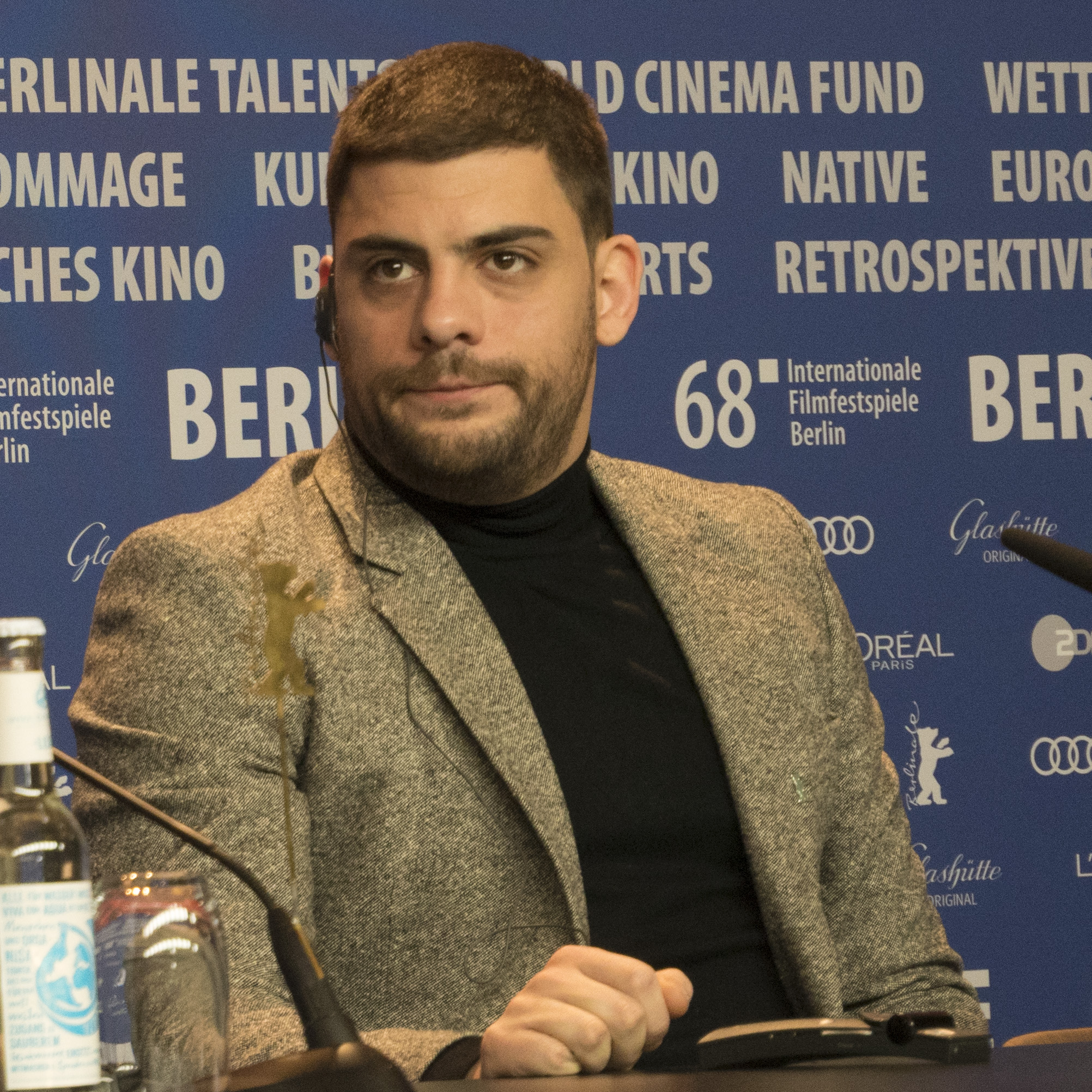 Milan Marić at the press conference of the film Dovlatov by Alexei German Jr. Berlinale 2018.